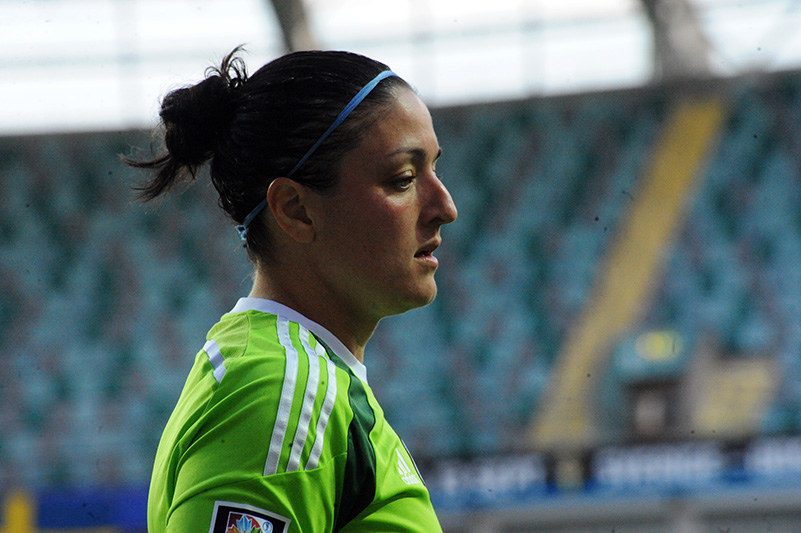 Gemma Fay playing for Scottish national football team